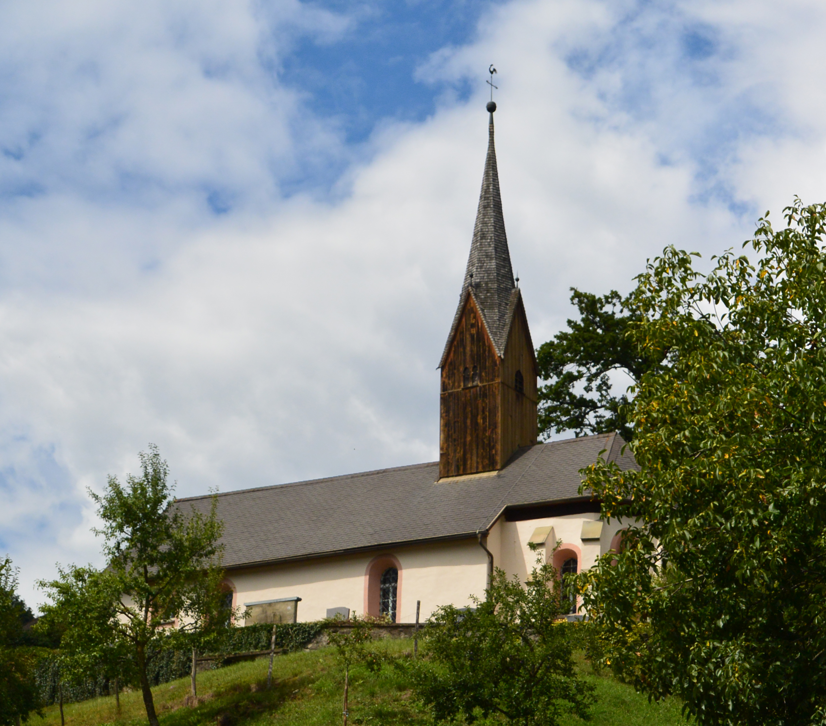 Parish church Sankt Paul ob Ferndorf in the community of Ferndorf